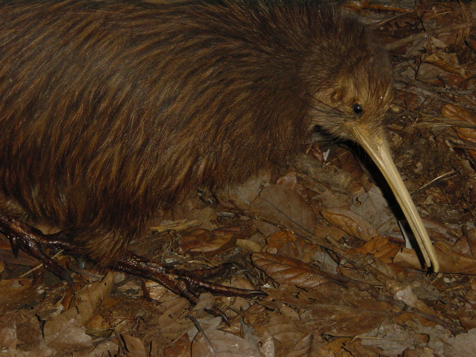 A kiwi in New Zealand